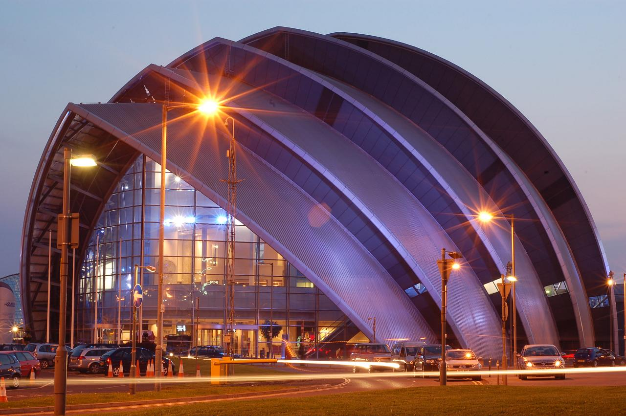 The Clyde Auditorium at the SECC, Glasgow.